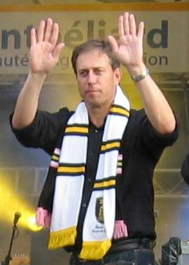 Image of Alain Perrin cropped from original.